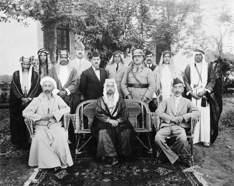 The sons of Sharif Hussein, commander of the Arab Revolt against the Ottomans, pictured in Baghdad / Seated in the front row from left to right: King Ali of the Hijaz, King Abdullah of Jordan, King Faysal of Iraq (former king of Syria)